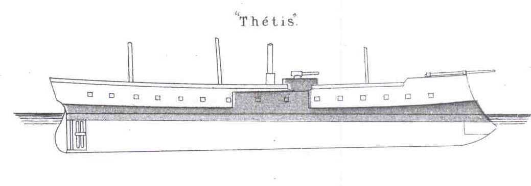 French ironclad Thetis, launched in 1867, and part of the Alma-class